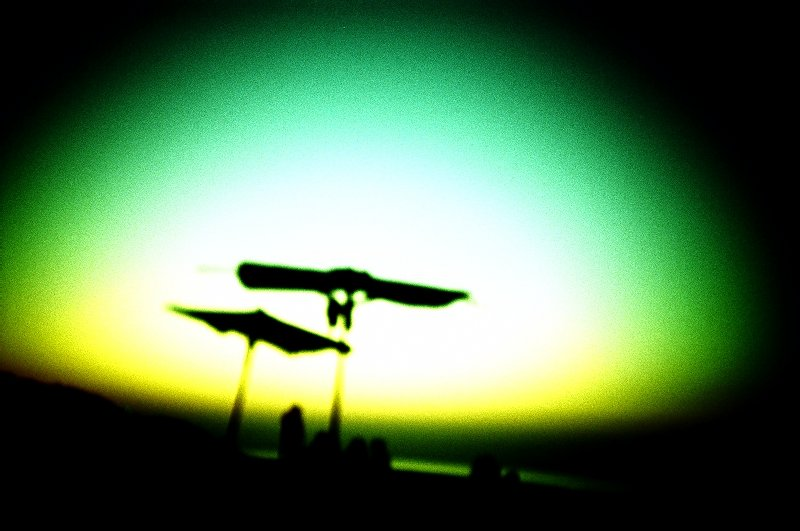 Shot by Koray Löker during the Siren2006 Reggea/Dub/Jungle Fest @ Kilyos/Istanbul/Turkey